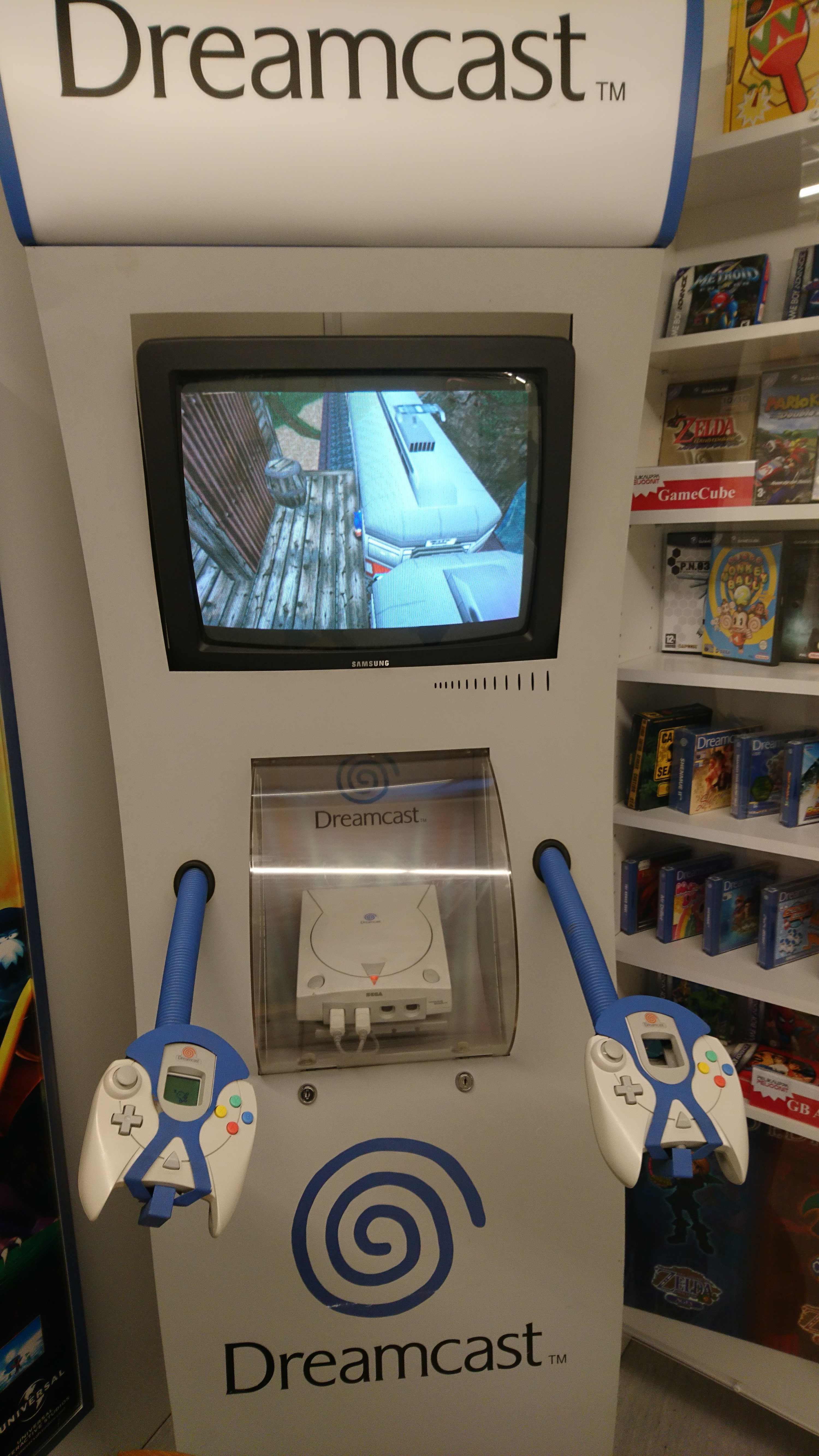 Sega Dreamcast arcade machine in The Finnish Museum of Games, Tampere.